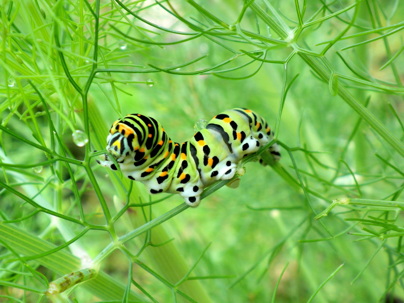 Picture of a machaon on fenouil